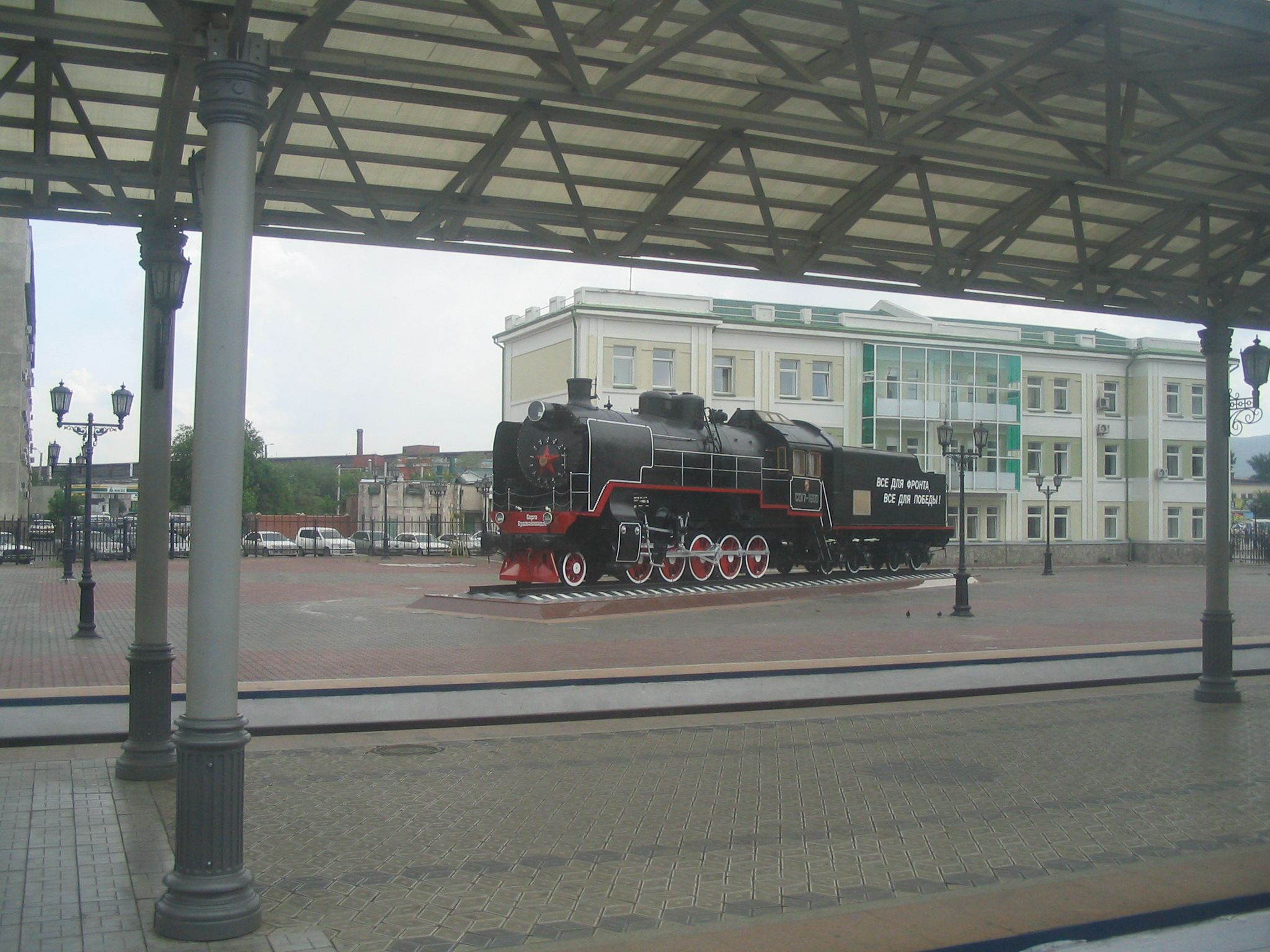 Train on the platform at Krasnoyarsk station on the trans-Siberian railway in Krasnoyarsk, Russia. Taken by me 7/06, released into the public domain